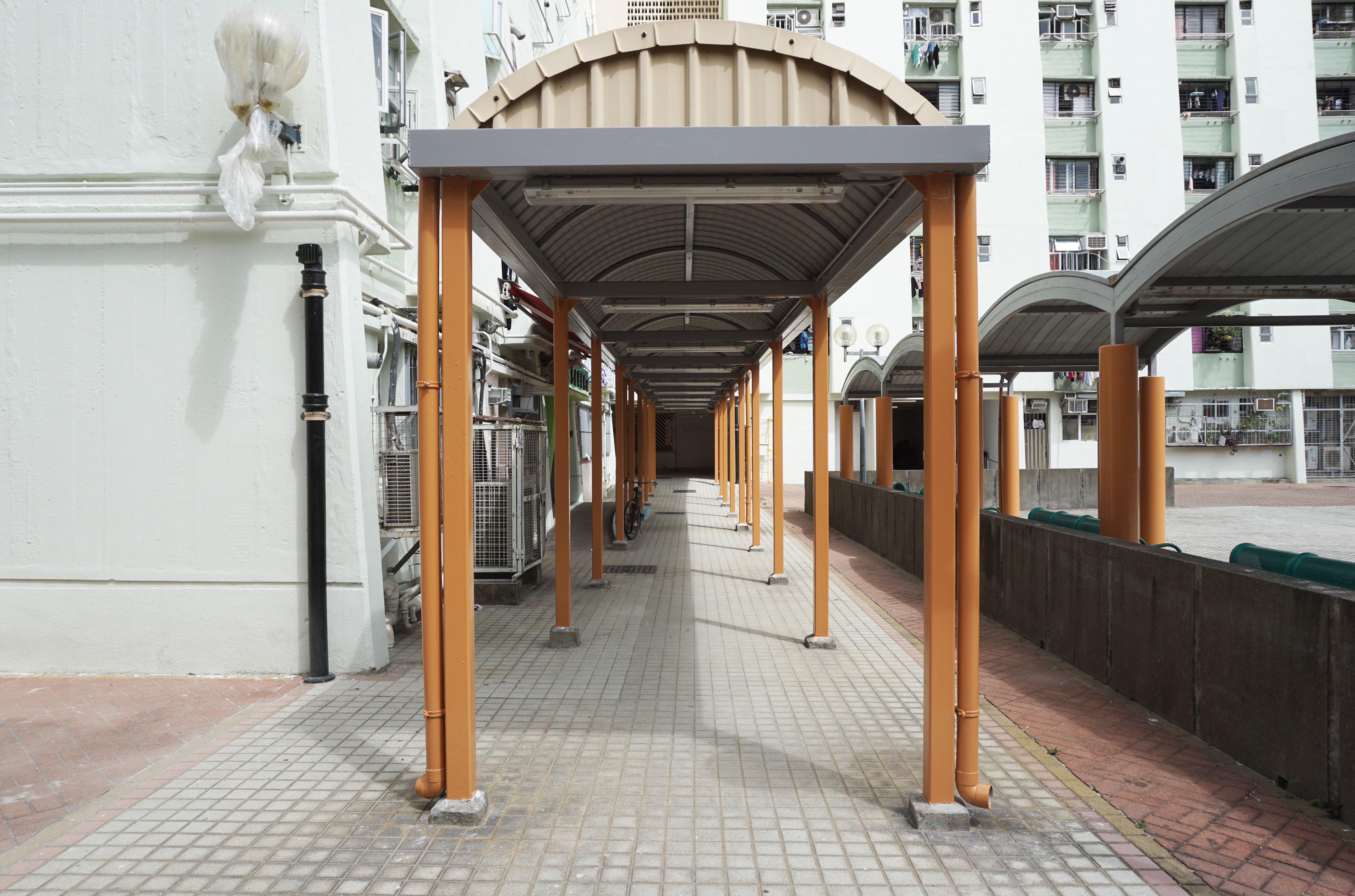 Tai Hing Estate in Tuen Mun, Hong Kong.